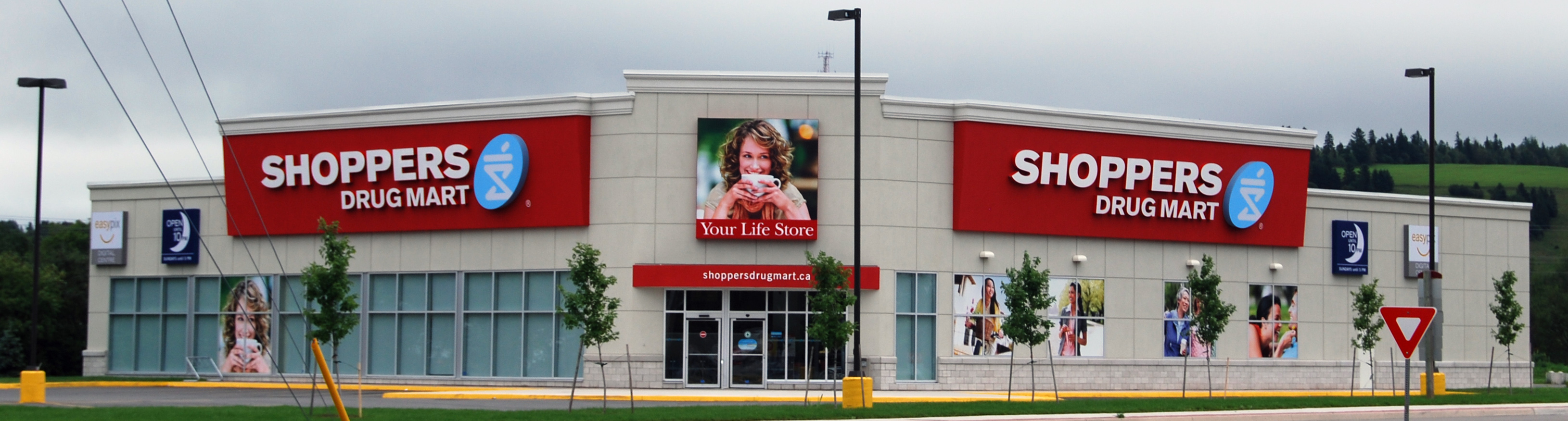 I, Myke Waddy took this photo, Sussex, New Brunswick Canada.